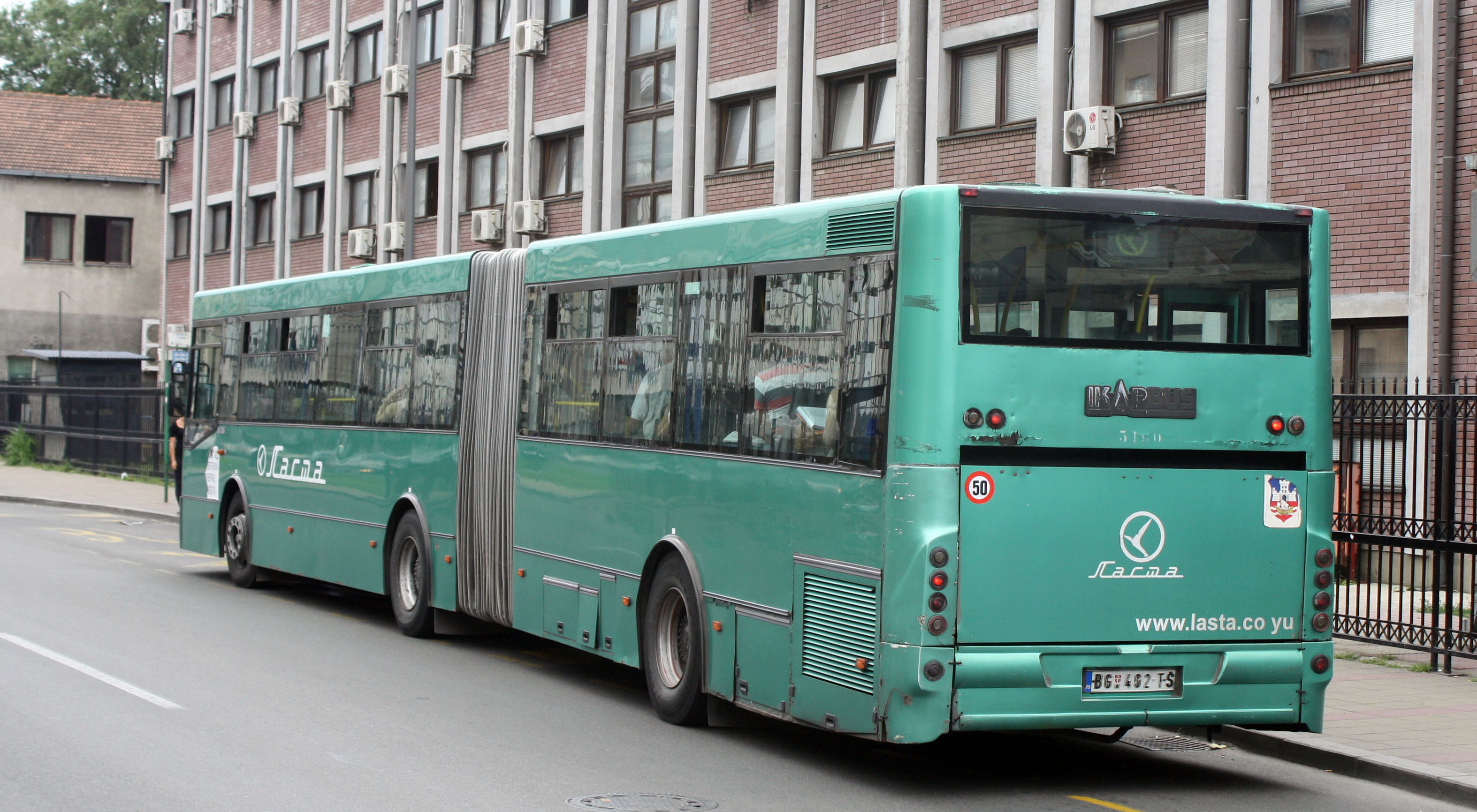 Ikarbus IK 206 city bus of Lasta Beograd bus operator.